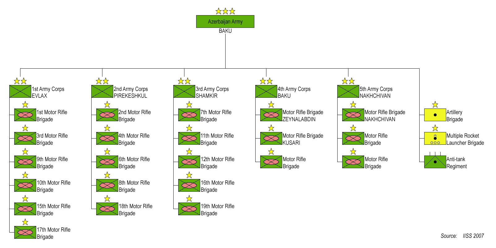 Azerbaijan Army January 2007 Order of Battle